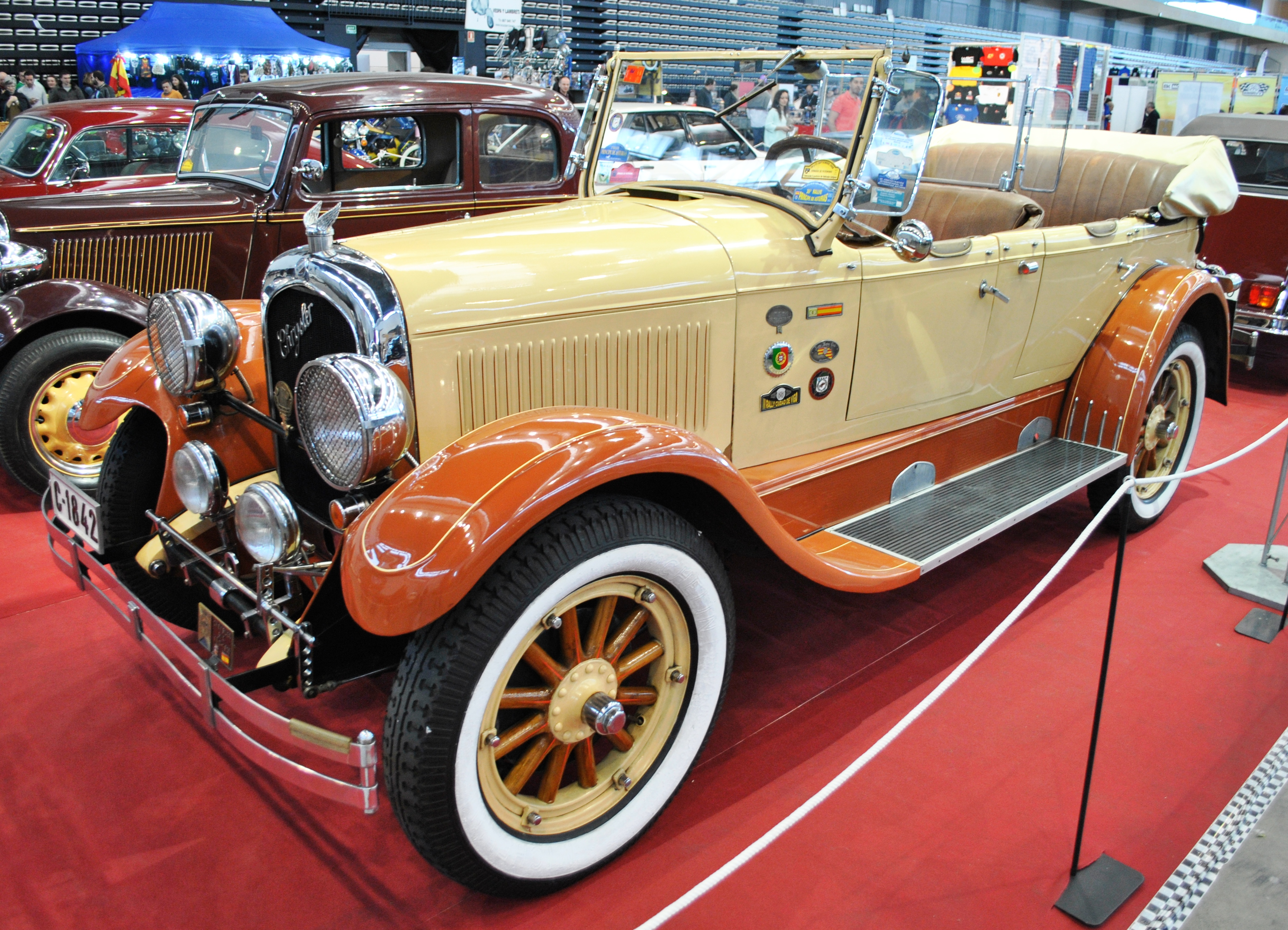 1926 Chrysler B70 Six at V Retro Auto&Moto Galicia.